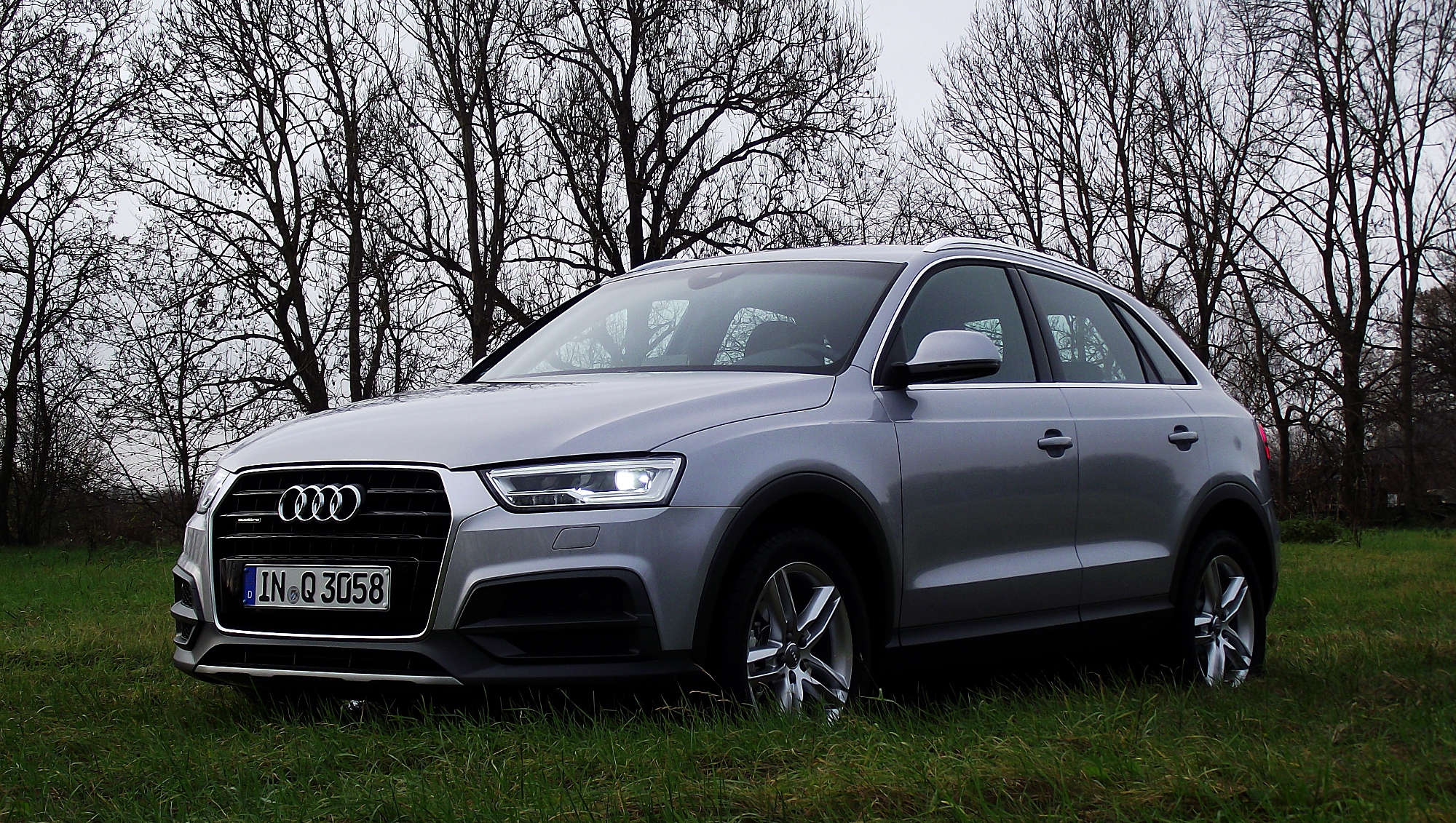 2015 Audi Q3 2.0 TDI quattro Facelift Type 8U Front View